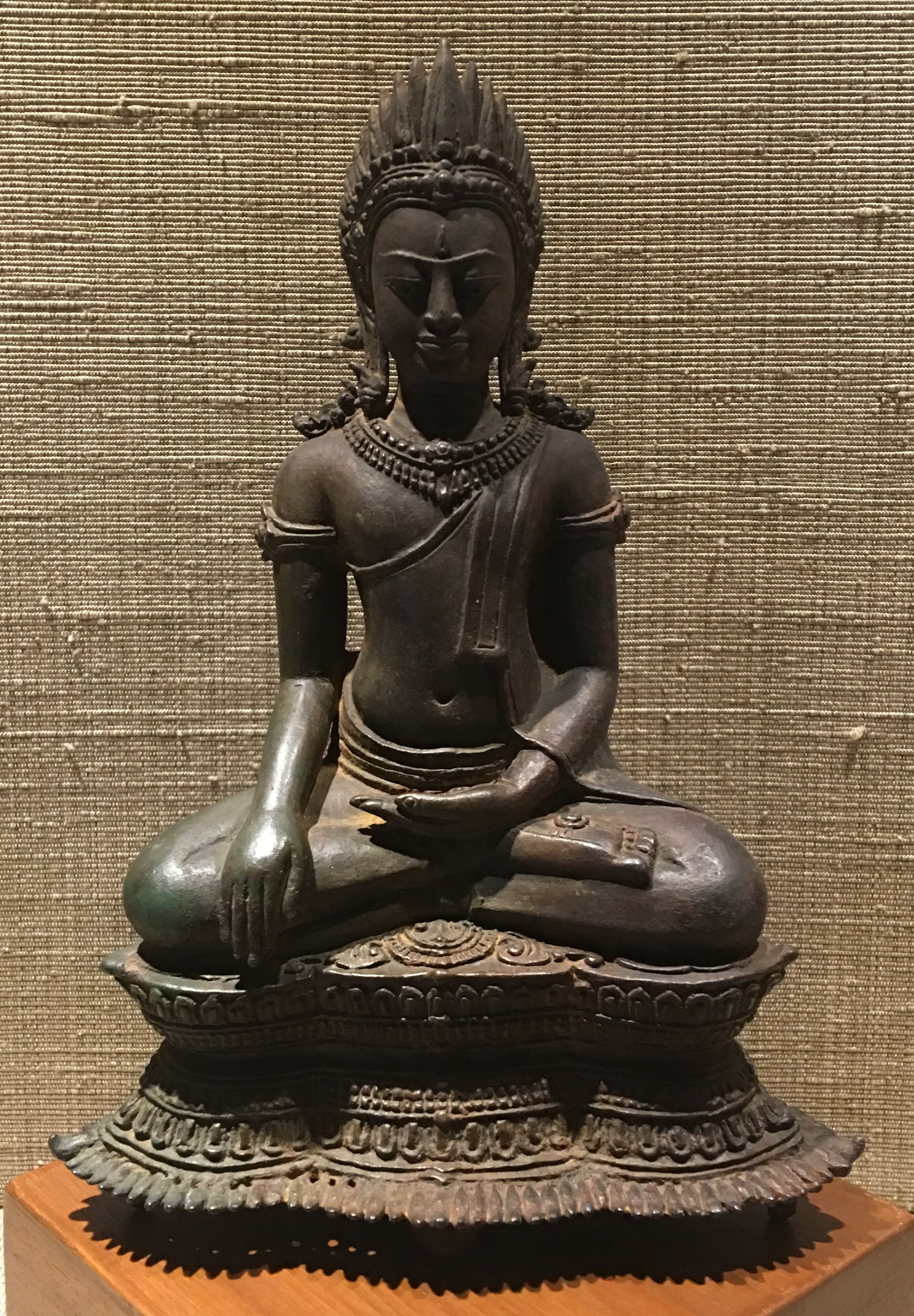 Buddha statue of the Khmer-Lopburi style (14th century), in the Jim Thompson House collection, Bangkok